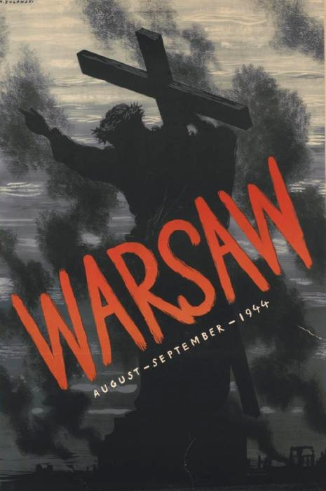 M. ZULAWSKI WARSAW AUGUST - SEPTEMBER - 1944.